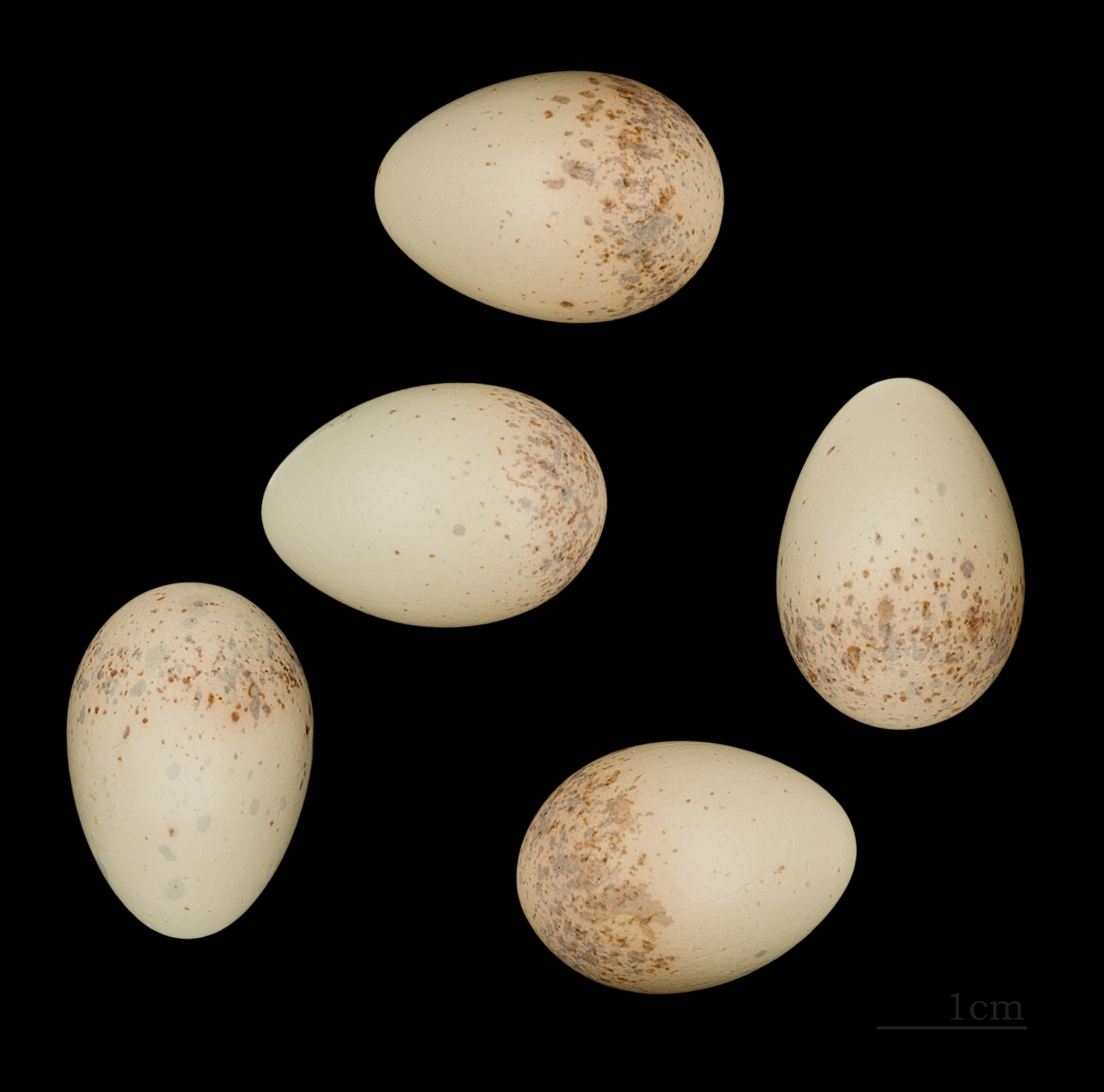 Egg of Red-backed Shrike. Collection of Jacques Perrin de Brichambaut.